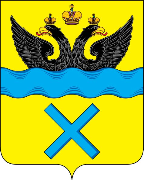 Orenburg, coat of arms